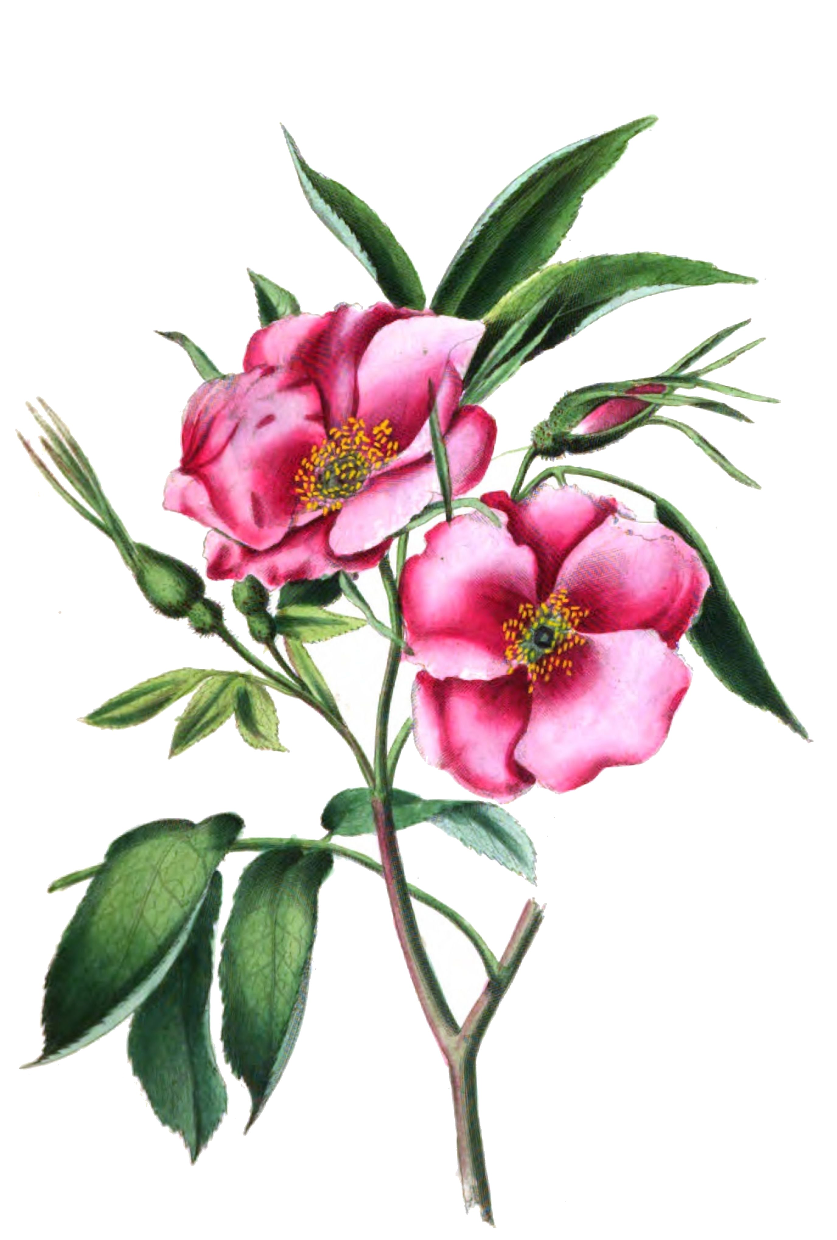 Scan from book. Painting of Rosa sp. (Rose).